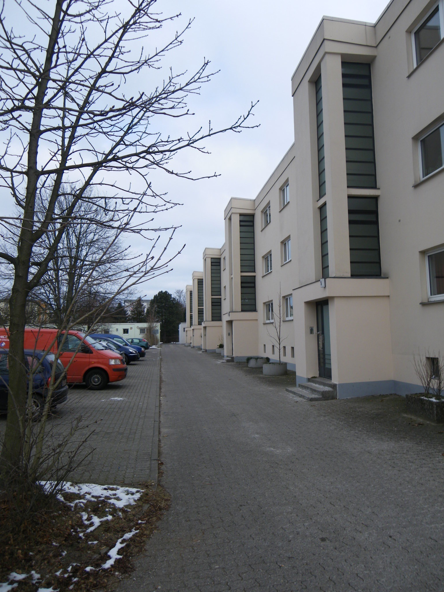 Suburban Colony Georgsgarten in Celle, Architect Otto Haesler